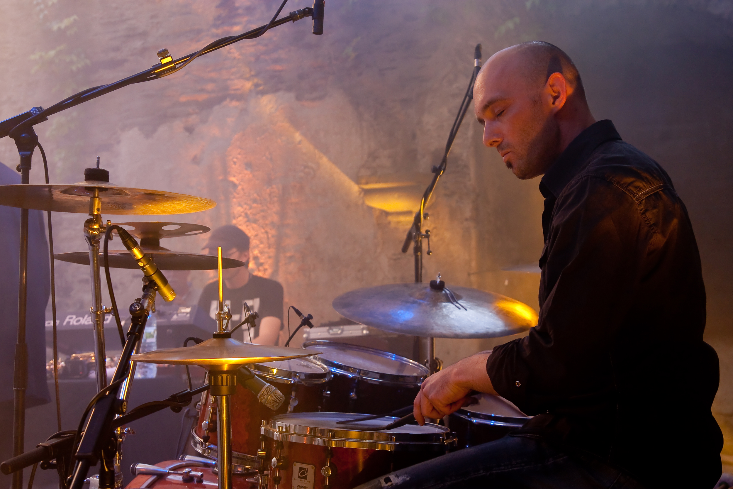 Christian Lettner playing drums with the band "Klaus Doldinger Quartett"